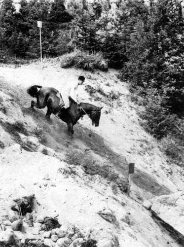 Wilhelm Büsing and Hubertus at the 1952 Summer Olympics in Helsinki.